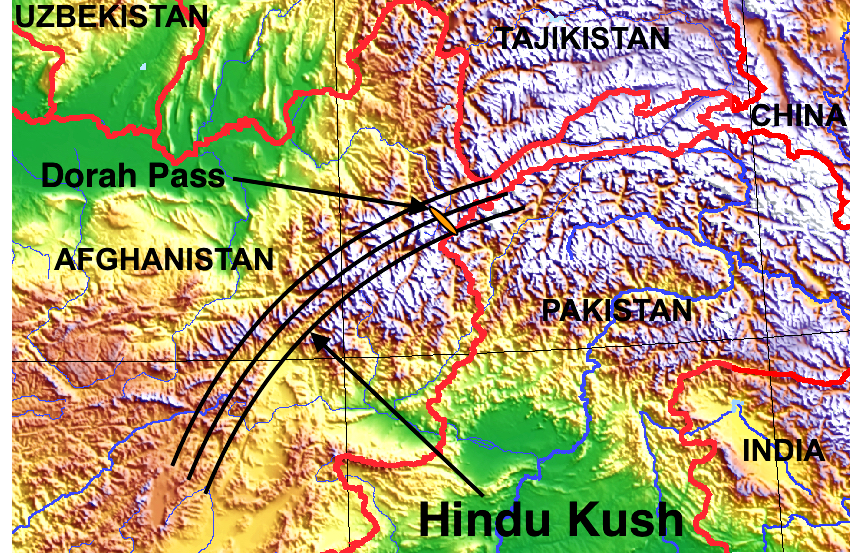 Hindu Kush range with captions, with Dorah Pass